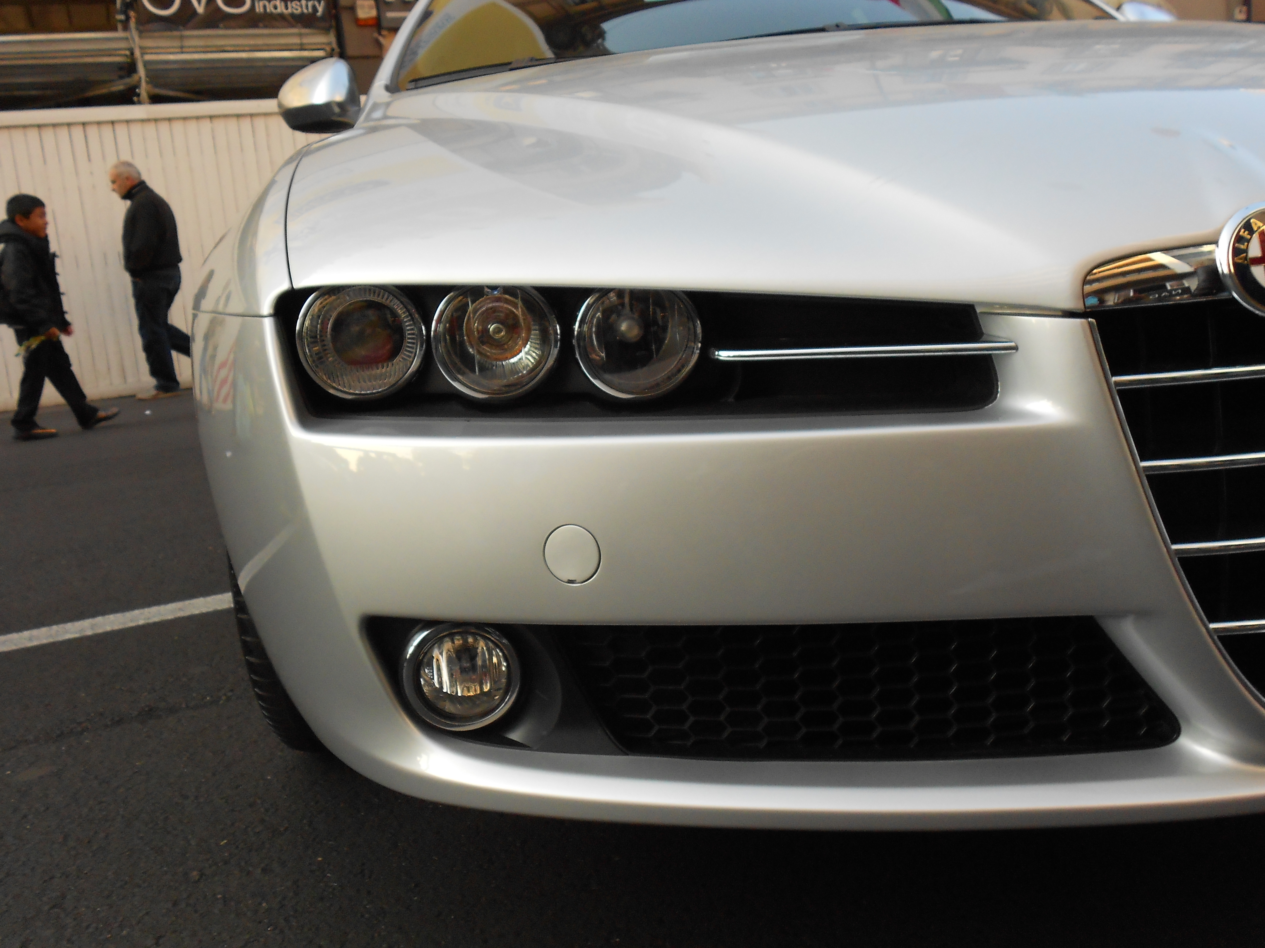 front light of Alfa Romeo 159; gathering of special cars in Milan.